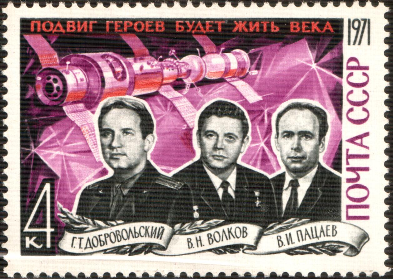 USSR stamp: Cosmonauts Georgy Dobrovolsky, Vladislav Volkov and Viktor Patsayev. Series: In Memory of Cosmonauts, Who Died During the "Soyuz 11" Space Mission, June 6-30, 1971